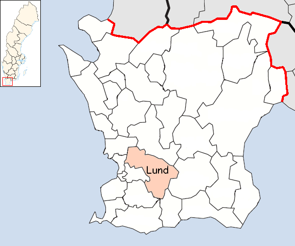 Lund Municipality in Scania, Sweden Designed by me. Mere outlines are a PD source from